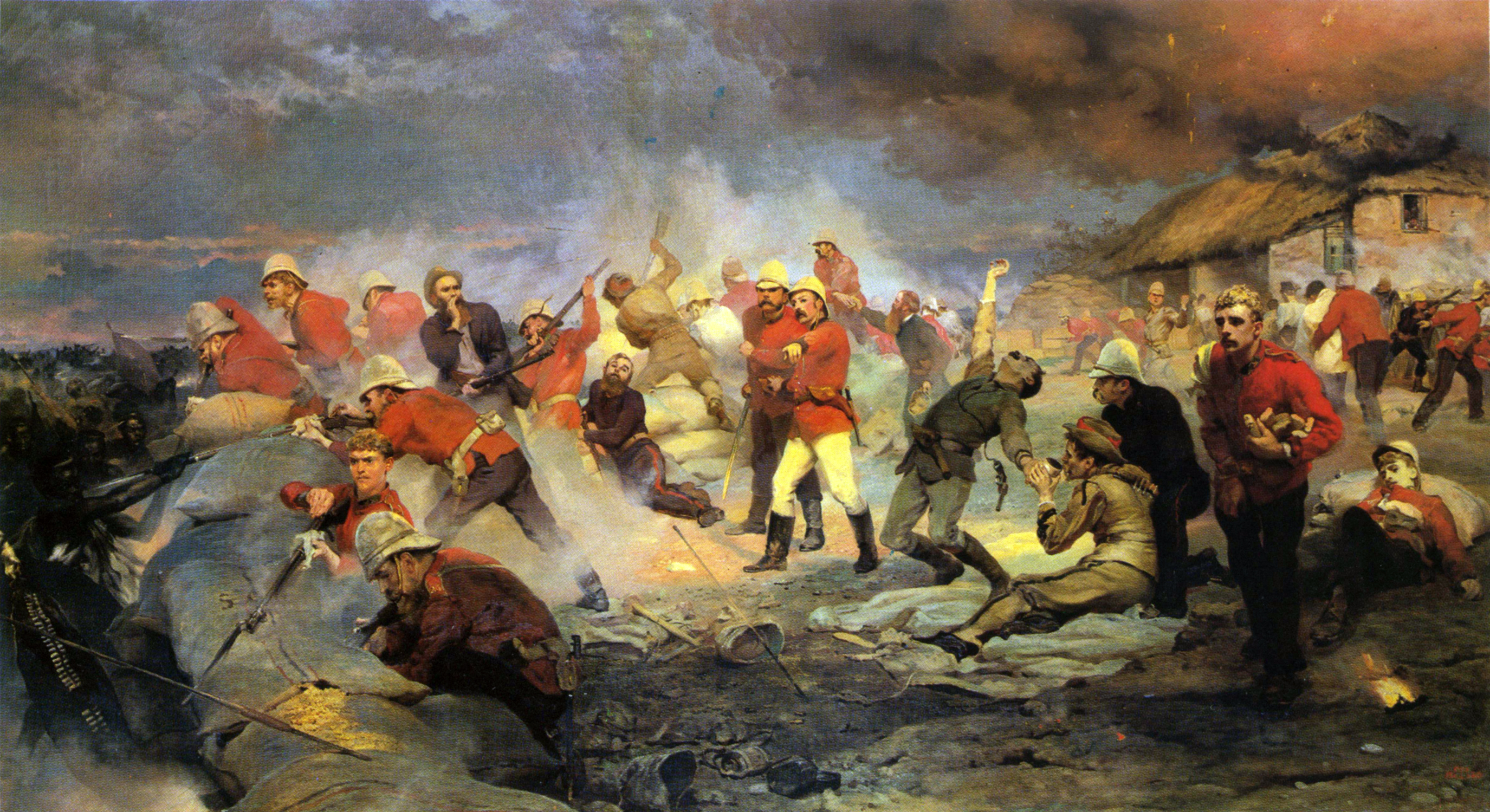 "The Defence of Rorke's Drift" by Lady Elizabeth Butler (née Thompson). Commissioned by Queen Victoria and inspired by survivors' accounts. Not to be confused with the painting of the same name by Alphonse-Marie-Adolphe de Neuville.